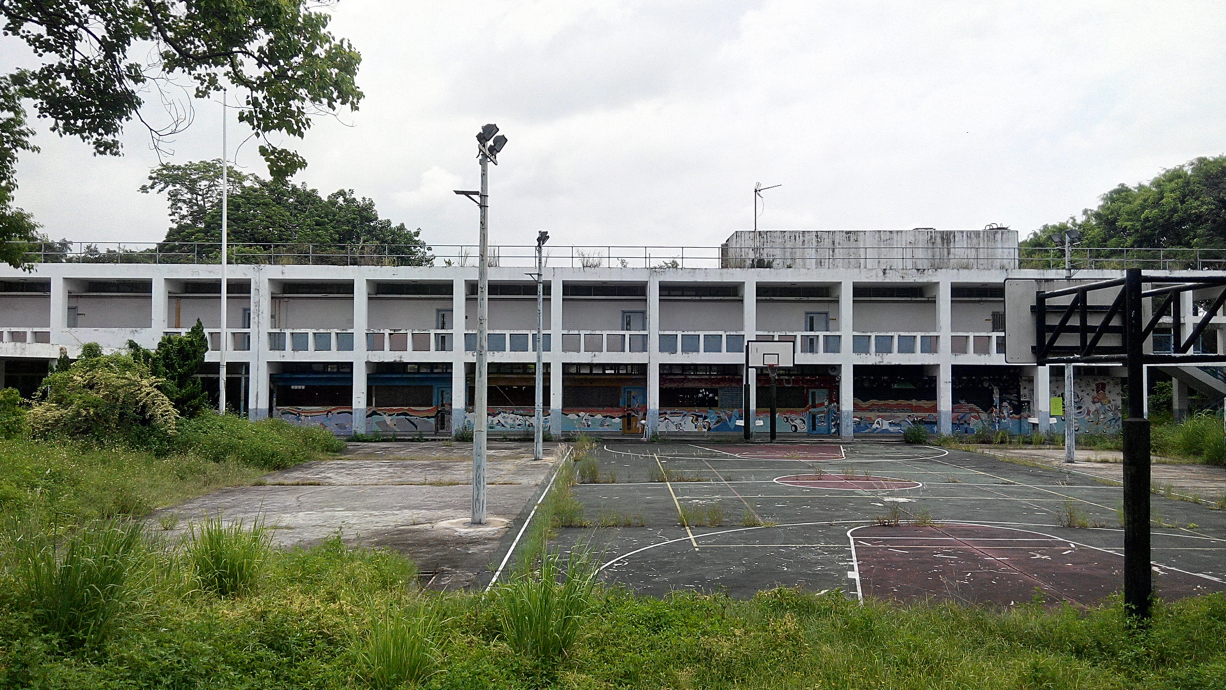 Ku Tung Public Oi Wah School